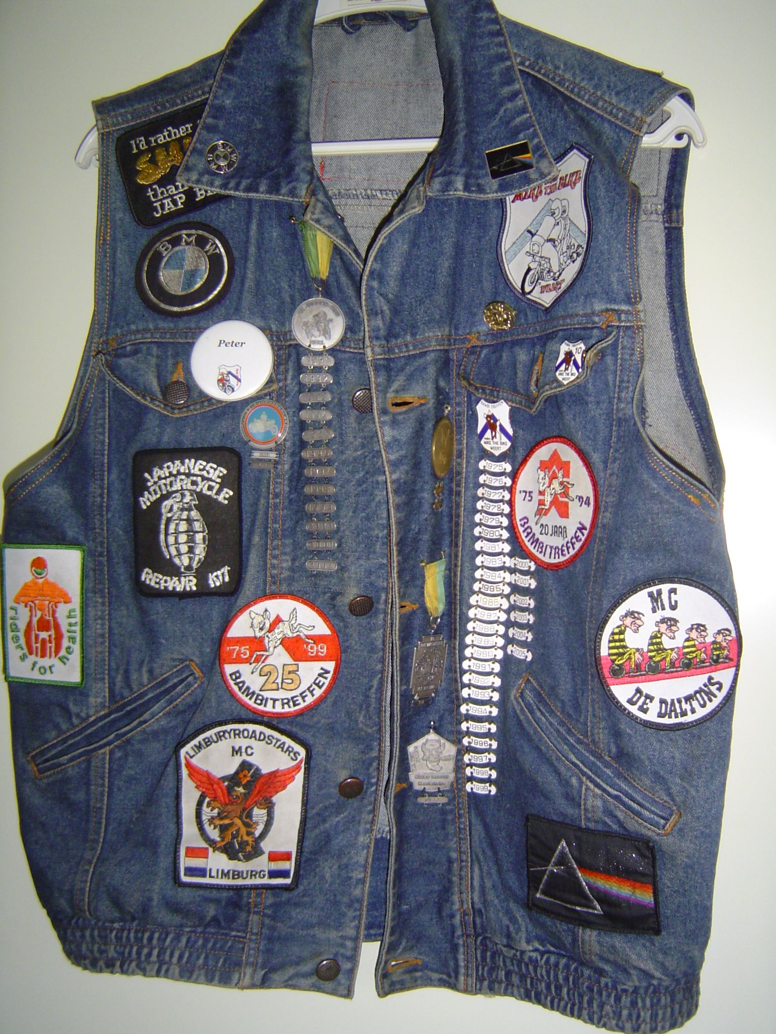 Badges suggesting that the wearer is a BMW rider with a dislike of Japanese motorcycles and a preference for the music of Pink Floyd.